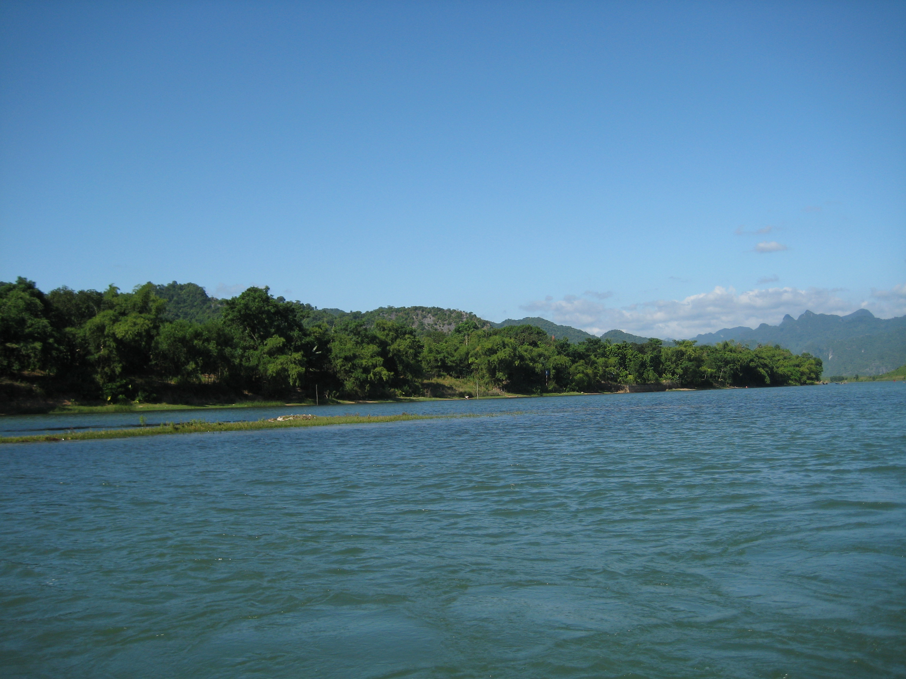 Son River (Vietnam) at Phong Nha Ke Bang National Park